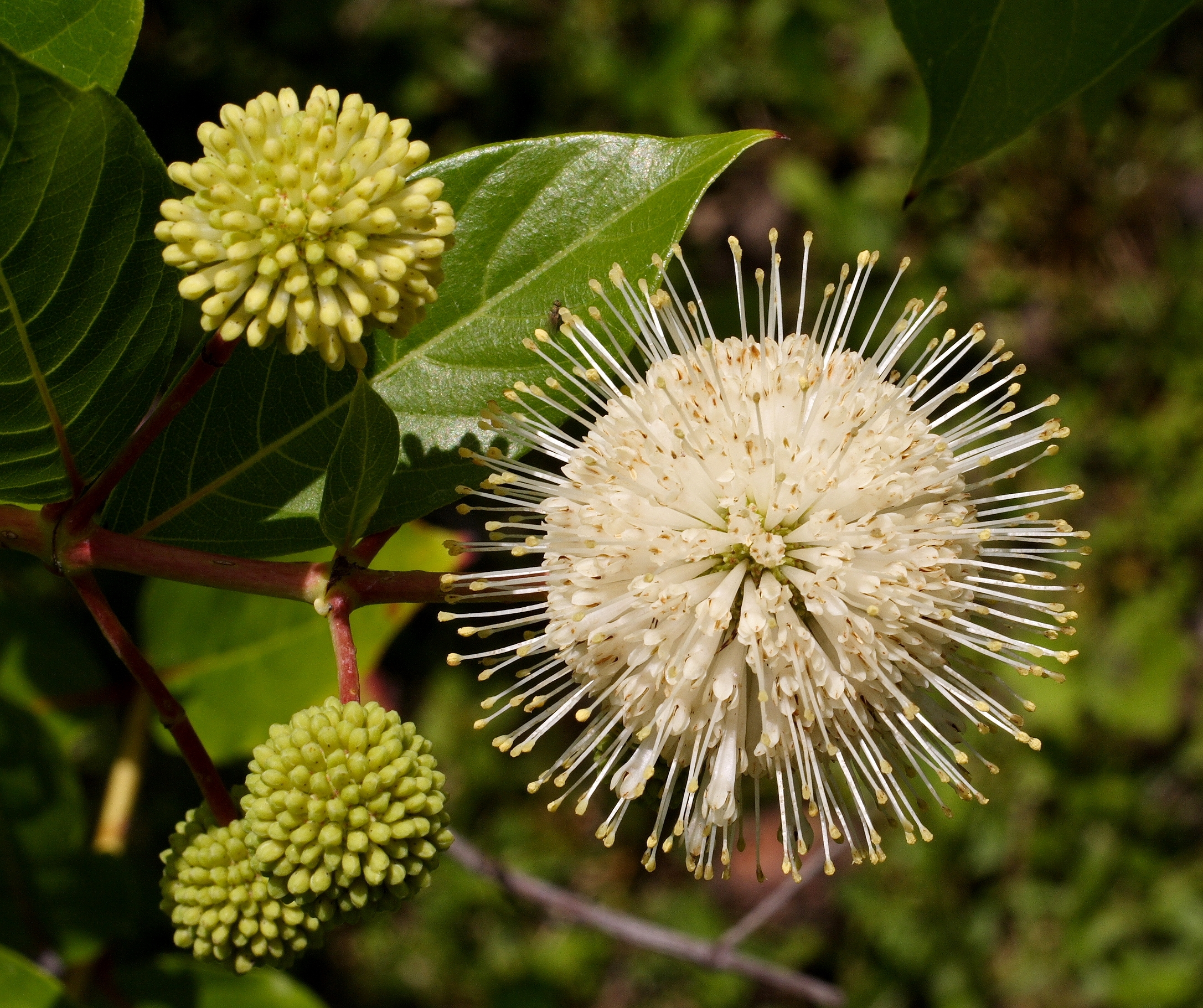 Close-up of the capitate inflorescence of buttonbush (scientific name: Cephalanthus occidentalis Linnaeus). It is a common North American shrub occurring in wet areas such as swamps, marshes, pond margins, and ditches. The ball-like inflorescence consists of numerous, tiny flowers with prominent, exserted styles. Plants in full flower are usually attended by a variety of nectar- and pollen-seeking insects and buttonbush is recommended for butterfly gardens. The plant is botanically interesting as a native, woody member of the coffee family (Rubiaceae) that is hardy as far north as parts of Canada. The plant is also noteworthy for its extensive north-south range and occurs from Canada south into Mexico, Guatemala, and Honduras. The pictured plant was photographed along the margin of a stormwater retention pond on the grounds of the headquarters of the South Florida Water Management District in Palm Beach County, Florida.